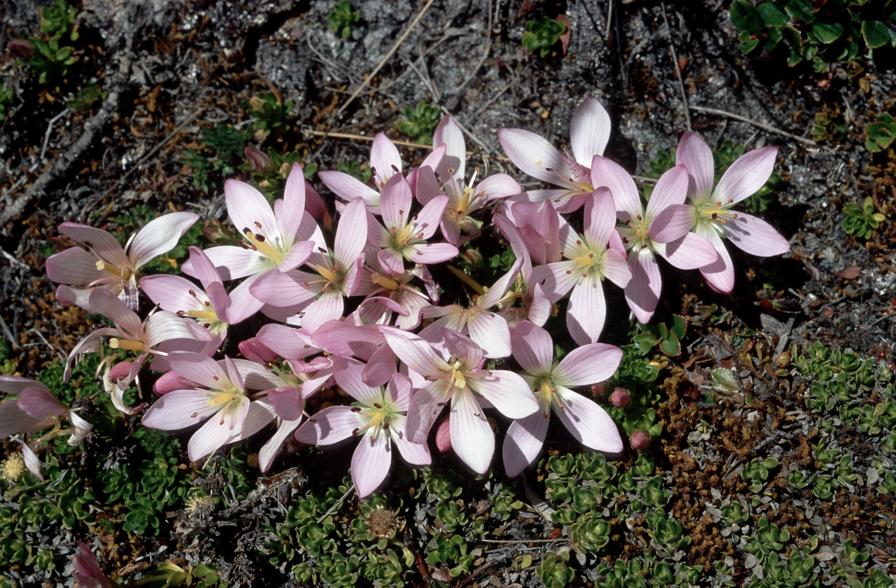 Gentianella cerastioides, Cotopaxi, Ecuador